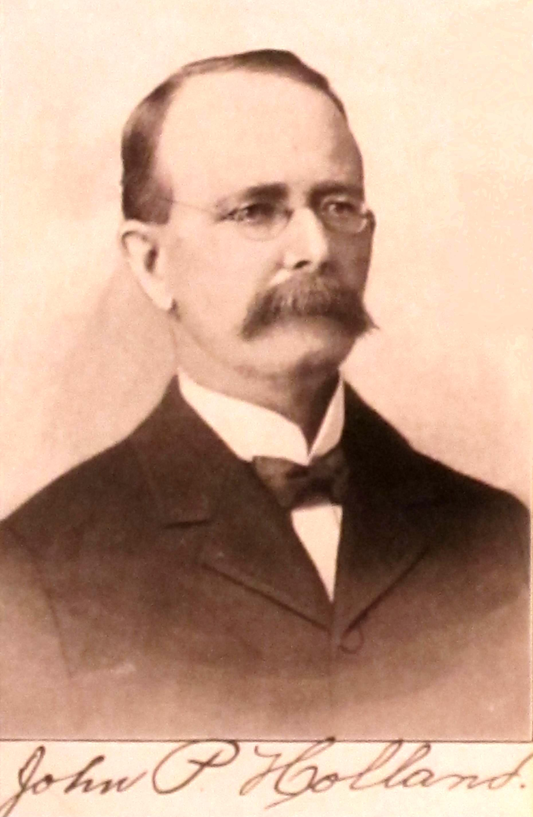 John Philip Holland (1841–1914)